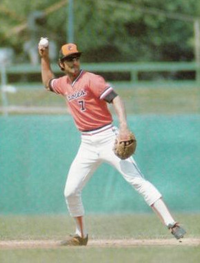 Professional baseball player Mark Belanger